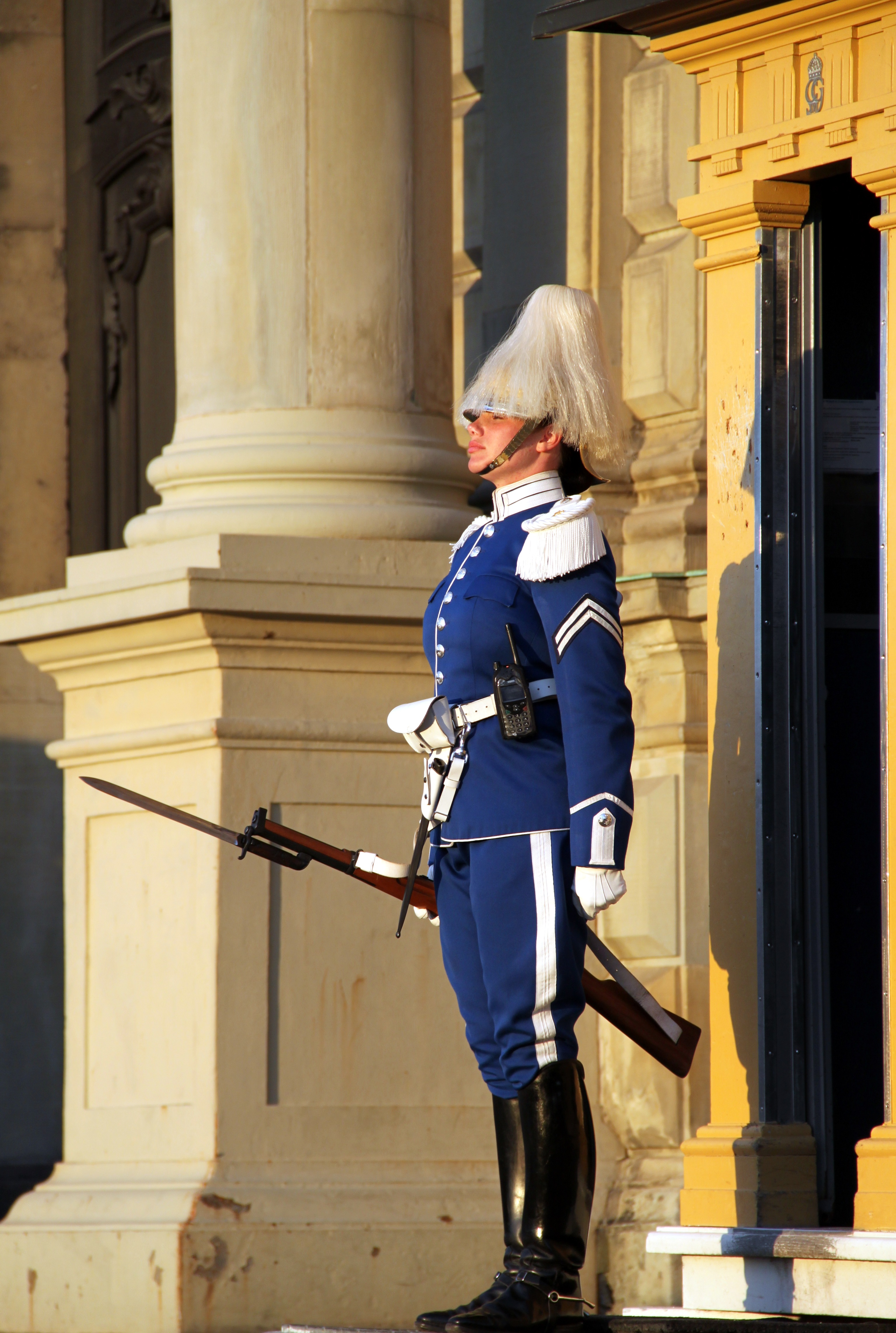 A female soldier of the Royal Guard in Stockholm in front of the Royal Palace.